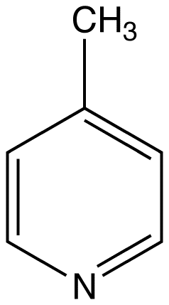 structure of 4-methylpyridine